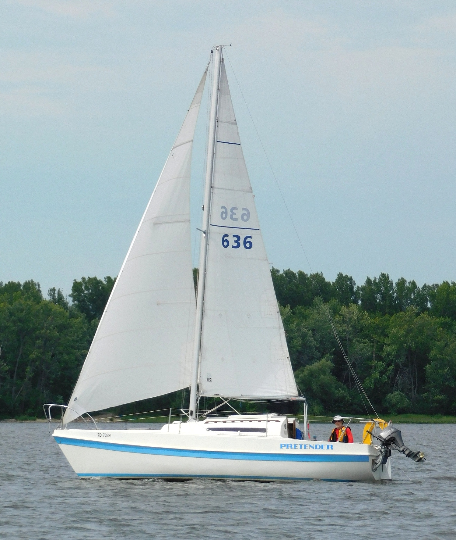 A Tanzer 7.5 sailboat named Pretender.